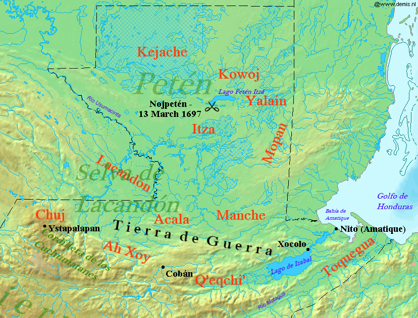 Map of Contact Period lowland Guatemala, 16-17th century. Sources: Lost Shores, Forgotten Peoples: Spanish Explorations of the South East Maya Lowlands by Lawrence H. Feldman 2000 The Kowoj: Identity, Migration and Geopolitics in Late Postclassic Petén, Guatemala by Rice & Rice 2009 La Conquista del Lacandón by Nuria Pons Sáez 1997 Relaciones de Verapaz y las Tierras Bajas Mayas Centrales en el siglo XVII by Laura Caso Barrera and Mario Aliphat 2007